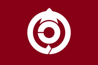 Flag of Wanouchi, Gifu